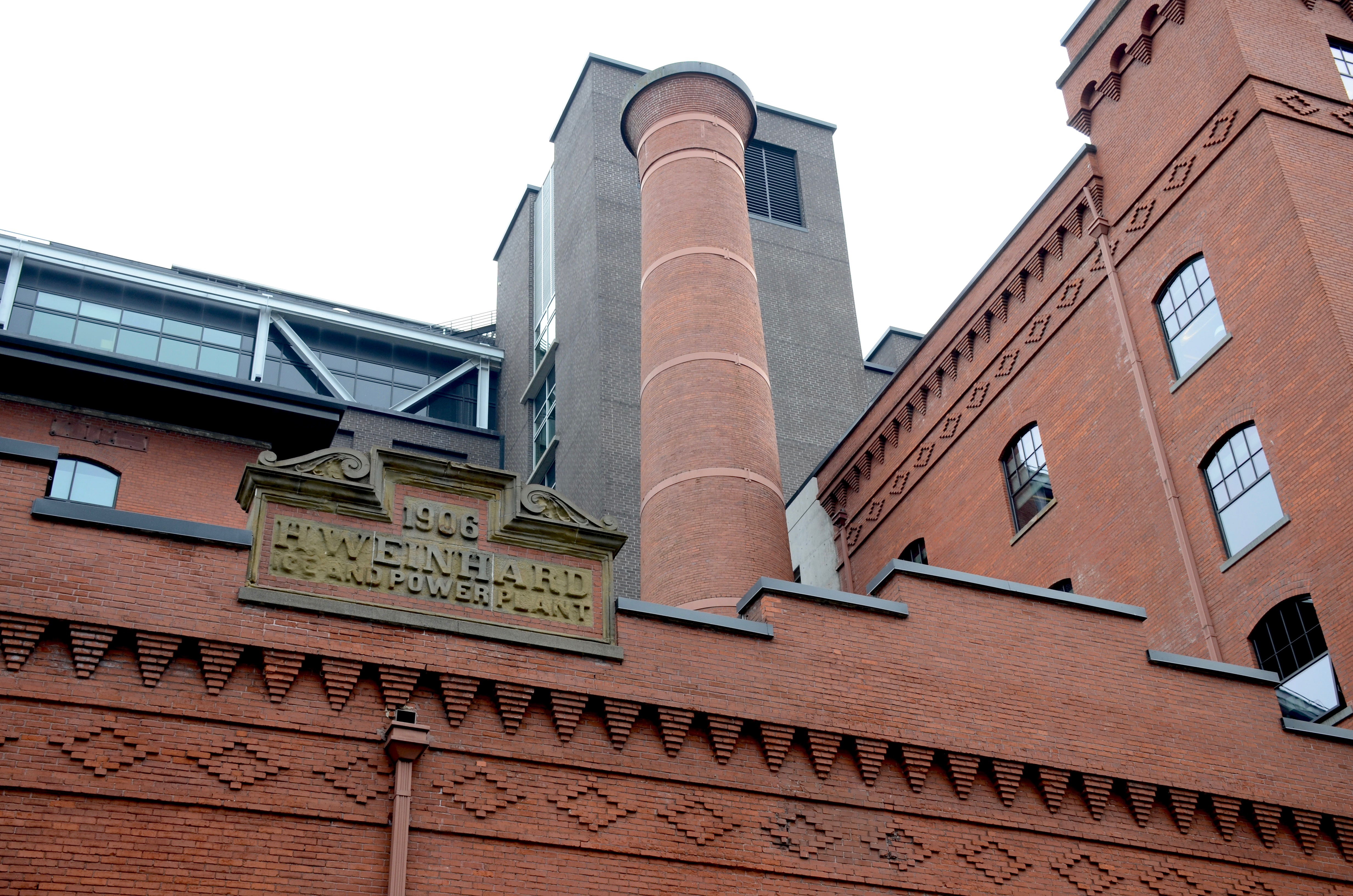 The Weinhard Brewery Complex, a former brewery in Portland, Oregon, is listed on the U.S. National Register of Historic Places. This view, from NW 12th Avenue, shows a portion of the west façade (and a bit of the south façade of the Malt House, upper right). The sign, located above the former main entrance to the Brew House, is dated 1906 and reads "H. Weinhard Ice & Power Plant".